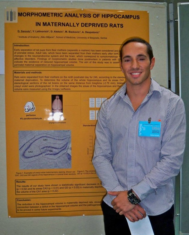 Darko Sarovic presenting his research at the European Students' Congress in Berlin, 2011